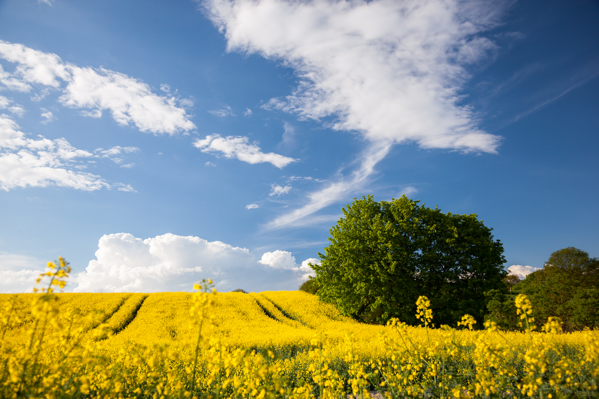 Field of Colza